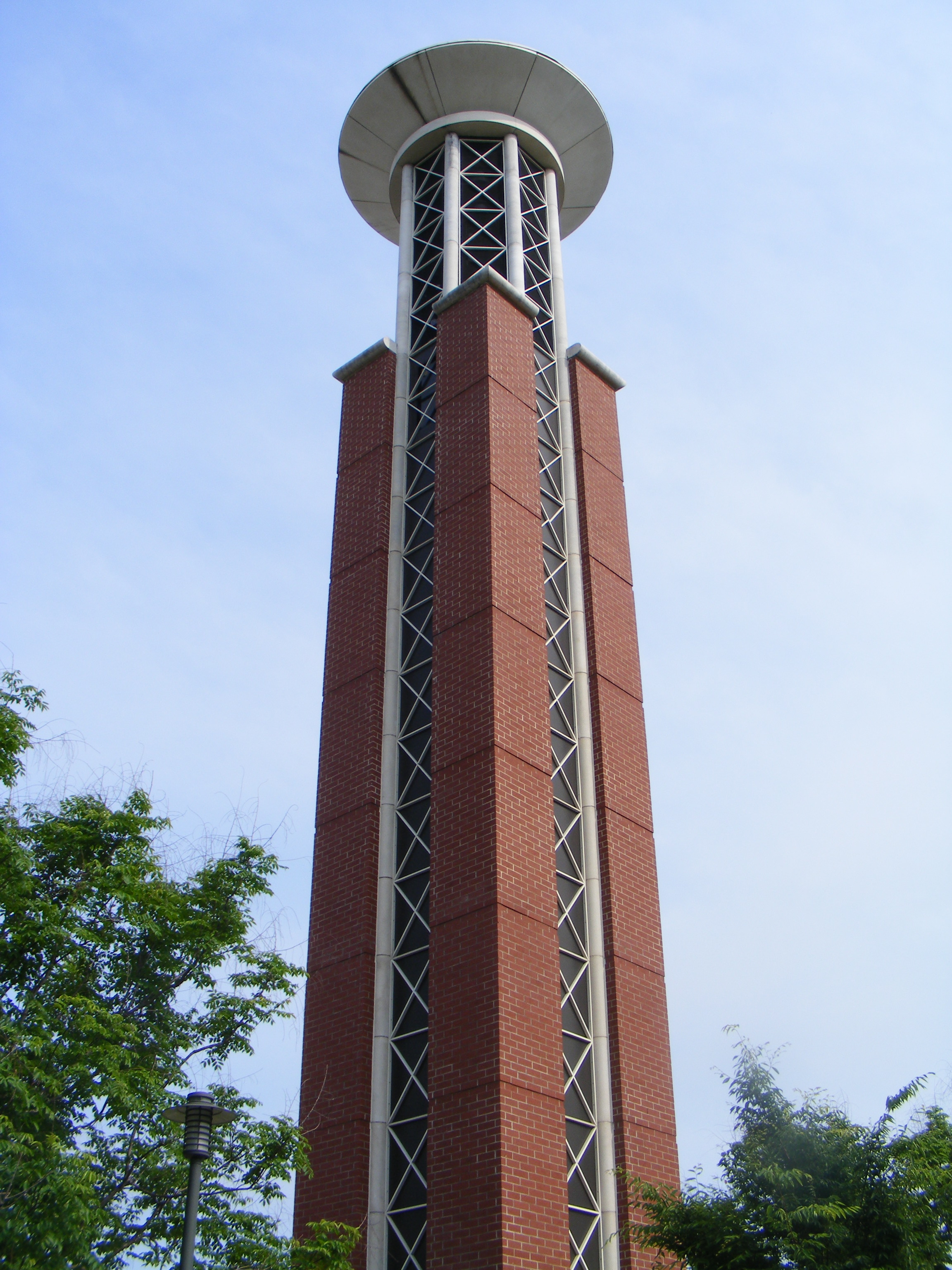 Lipscomb University in Nashville, Tennessee.